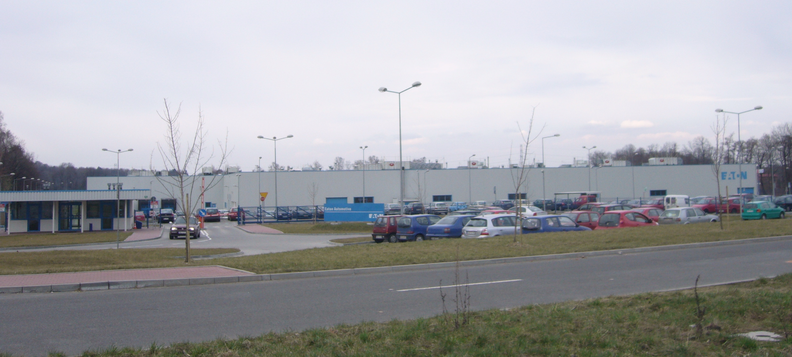 Special Economic Zone in Bielsko-Biała